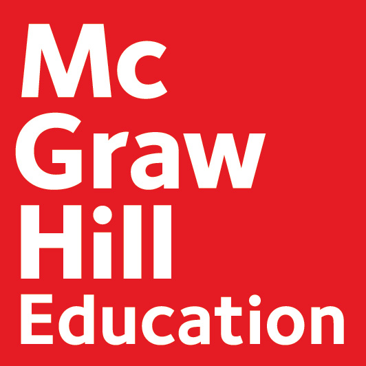 The branded McGraw-Hill Education logo after separation from McGraw-Hill Financial.